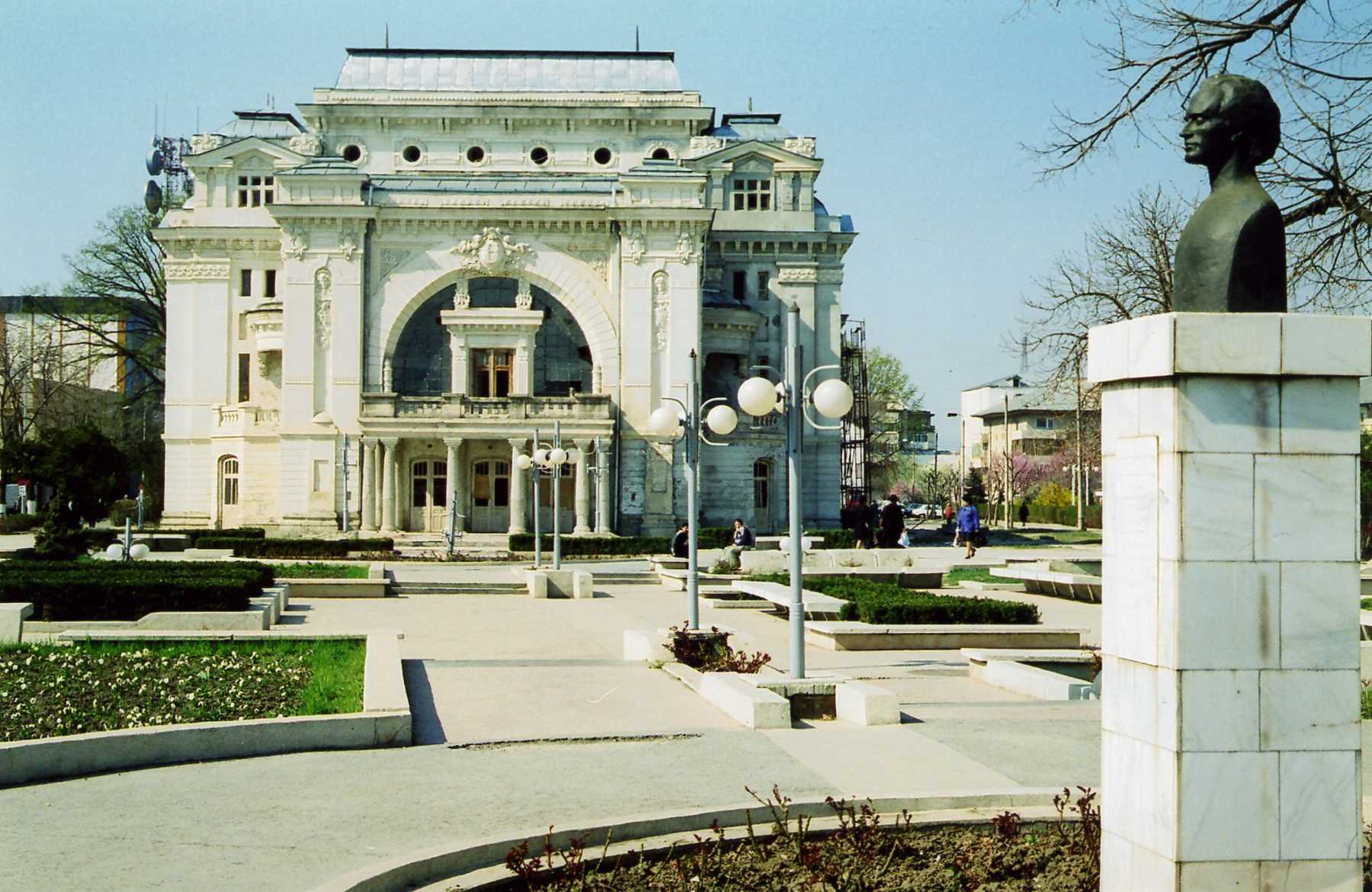 Mihai Eminescu statue in front of the Municipal theatre which was closed at the time.